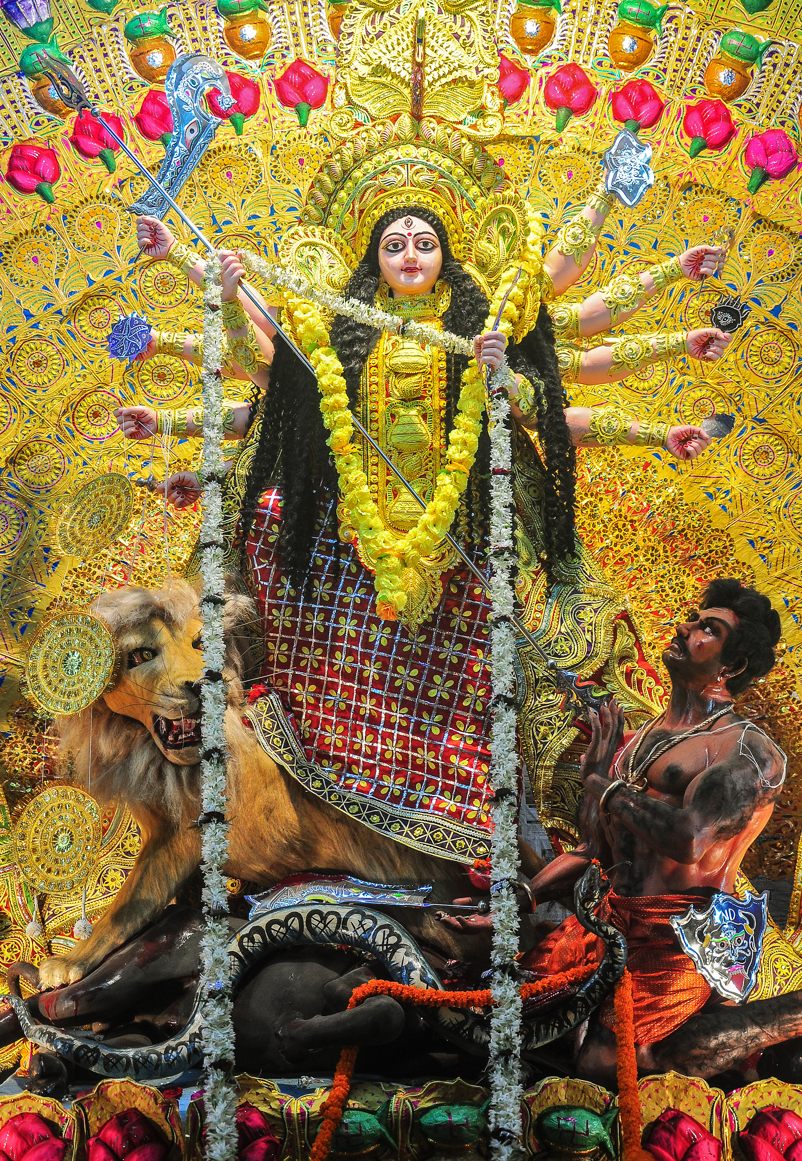 Sculpture of goddess Durga at Durga temple, Burdwan.